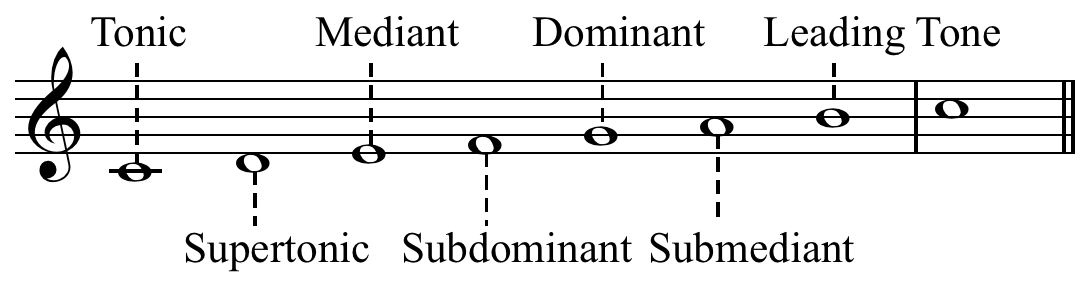 Scale degree names (C major scale).